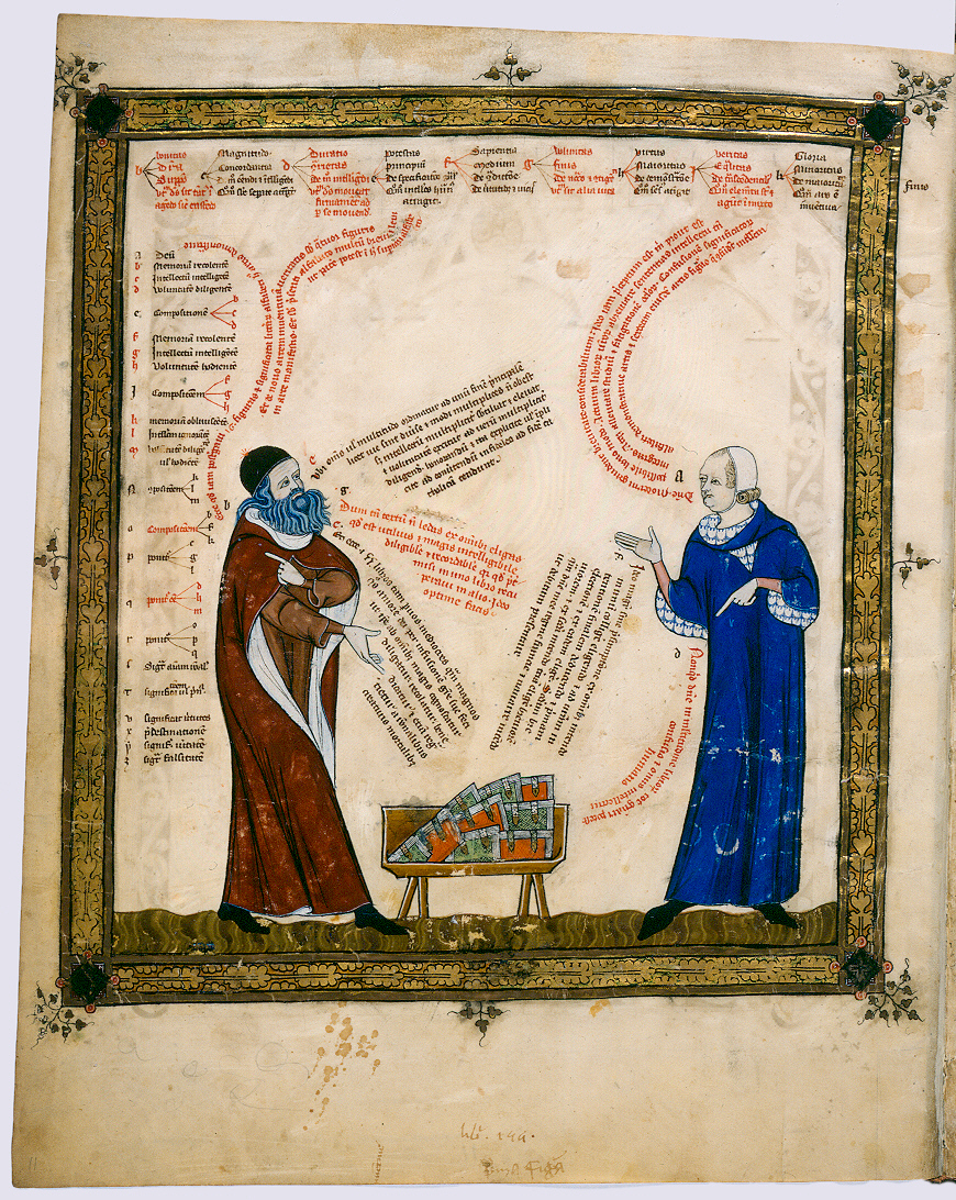 Raimundus Lullus, Thomas le Myésier: Electorium parvum seu breviculum (nach 1321) Badische Landesbibliothek, Cod. St. Peter perg 92, Blatt 11v